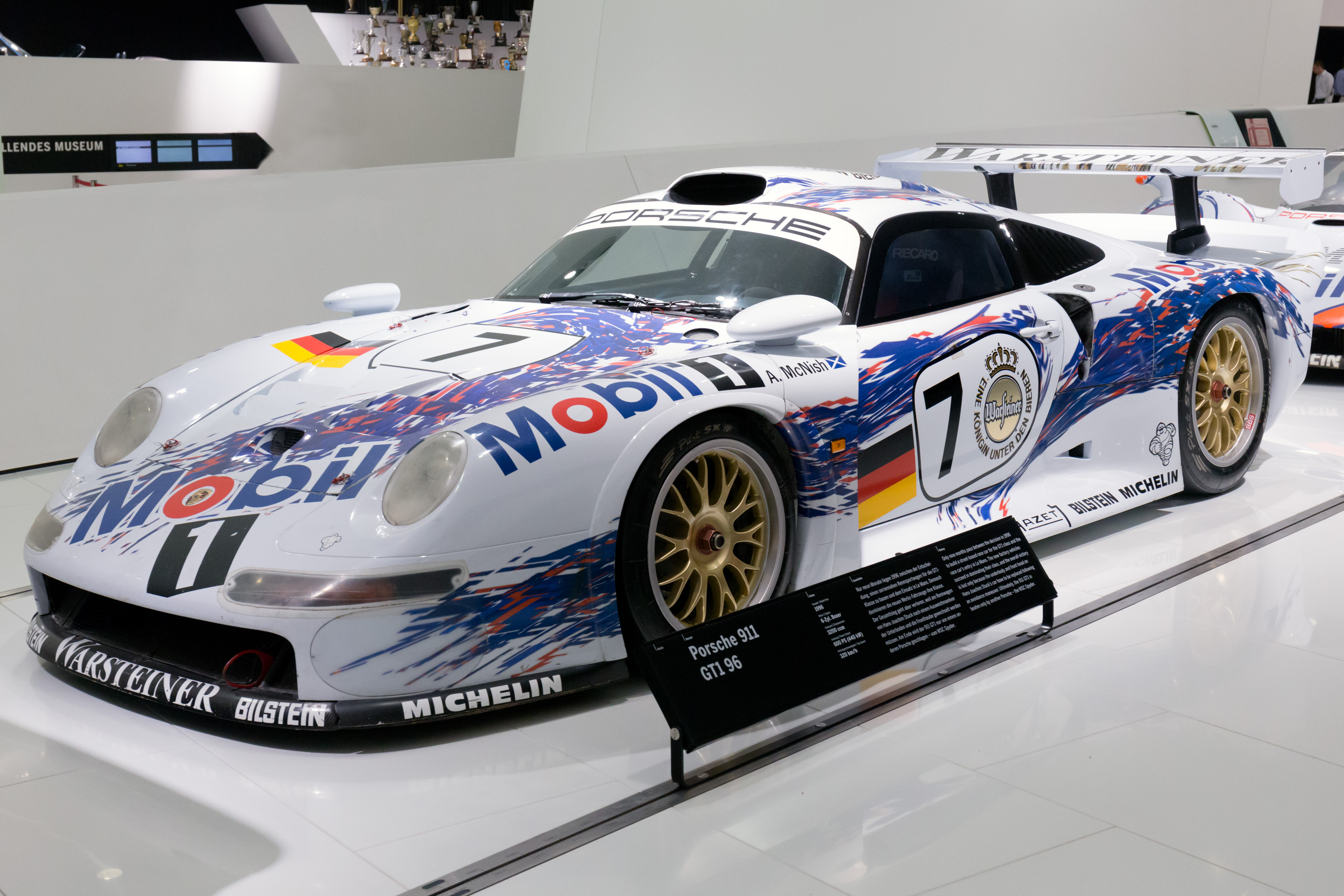 1996 Porsche 911 GT1, (model year, 1996 .Porsche, 911 GT1) #7 Michelin Mobil 1 -Porsche 911 GT1-96 front-left Porsche Museum, Germany